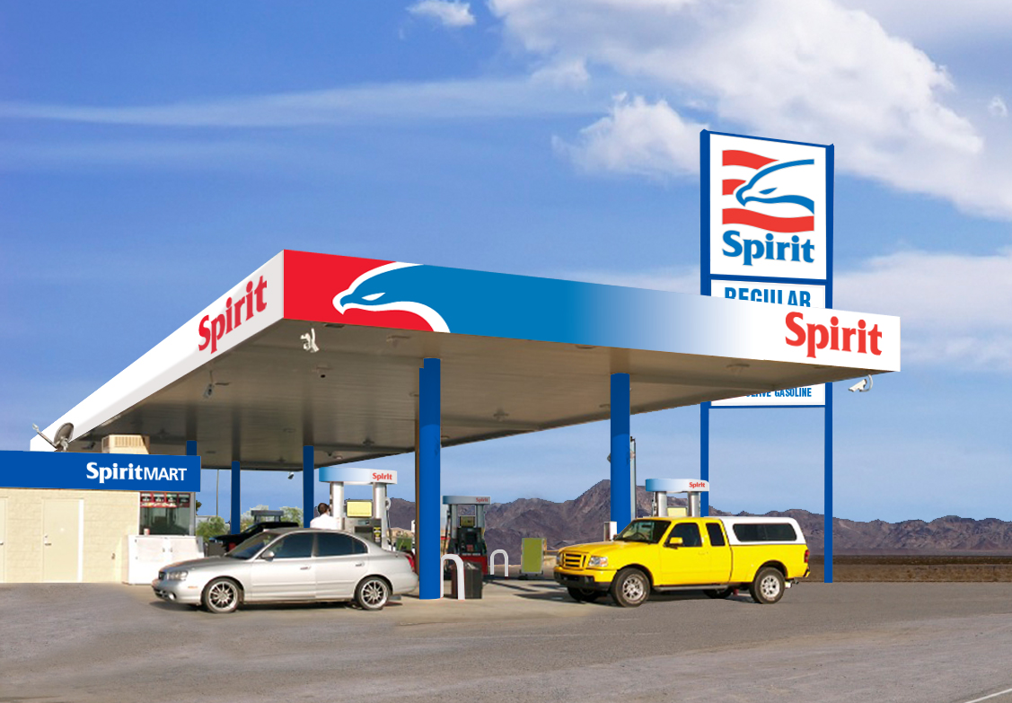 Prototypical Spirit Petroleum fuel station and SpiritMart convenience store.